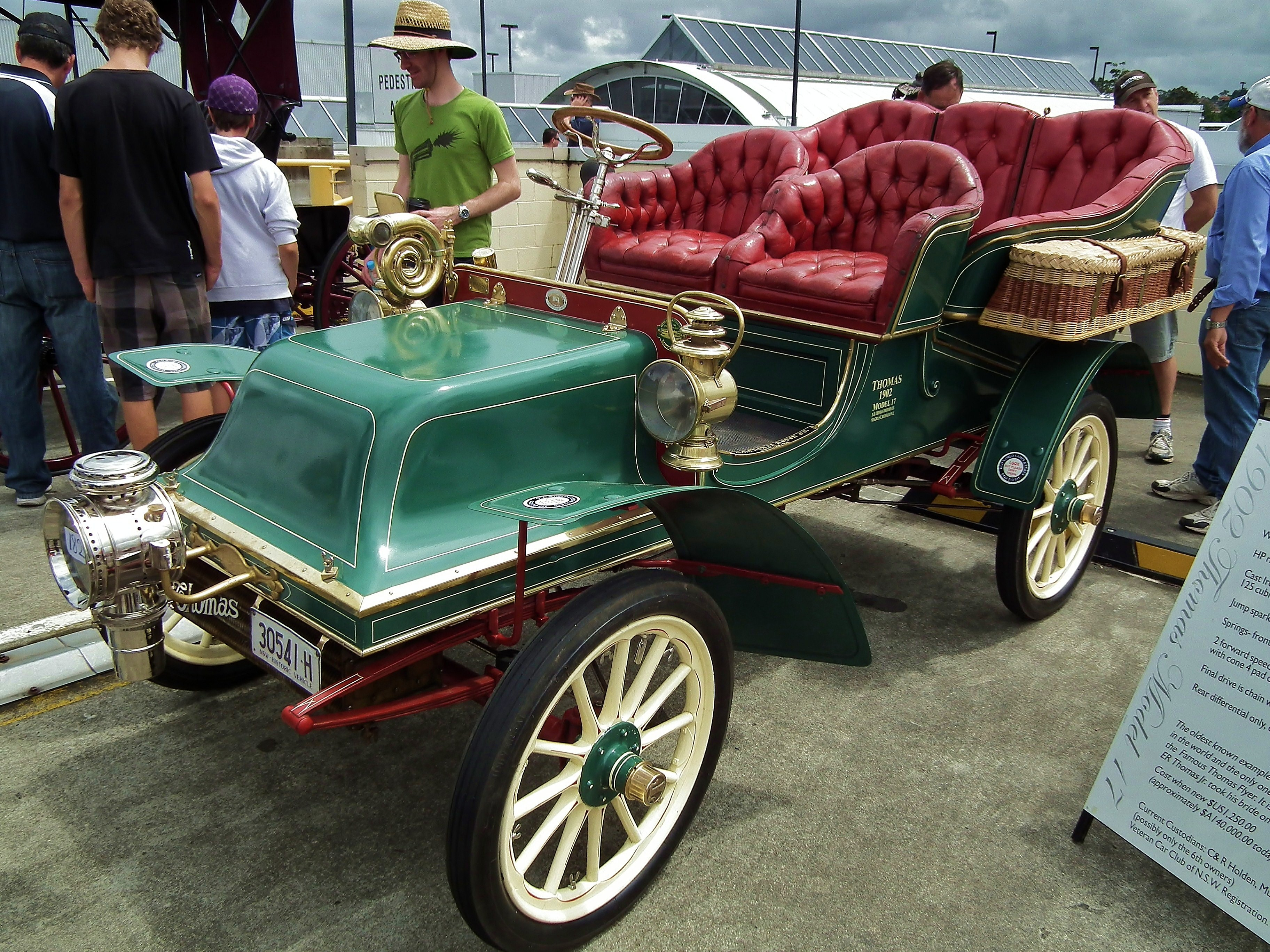 1902 Thomas Model 17 tonneau. The oldest known surviving example of the E. R. Thomas Motor Company in the world, and believed to be the car used by E. R. Thomas Jnr to convey his bride on their honeymoon. Taken at the 2012 New South Wales All American Day, held at Castle Towers Shopping Centre, Castle Hill, Sydney.